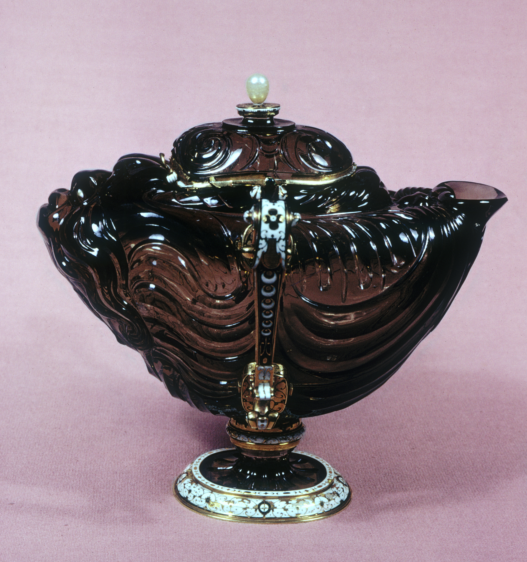 Until recently, this vessel in the shape of a marine monster was identified as carved by Alessandro Miseroni and mounted in enameled gold by Hans Vermeyen (died 1606). Now it is regarded as the work of Reinhold Vasters (1827-1909), a restorer turned forger based in Aachen, Germany. He was responsible for designs that were often executed in Paris. Many of his pieces passed through the collection of the famous dealers and collectors.